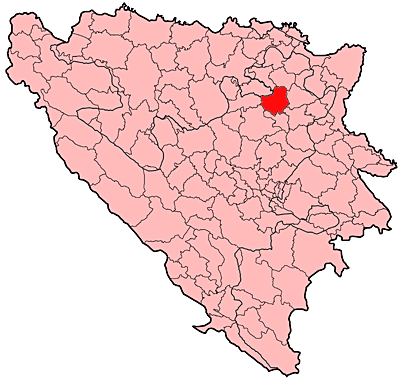 Location of Lukavac municipality in Bosnia and Herzegovina.